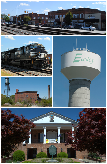 Photos I took around Easley, South Carolina.